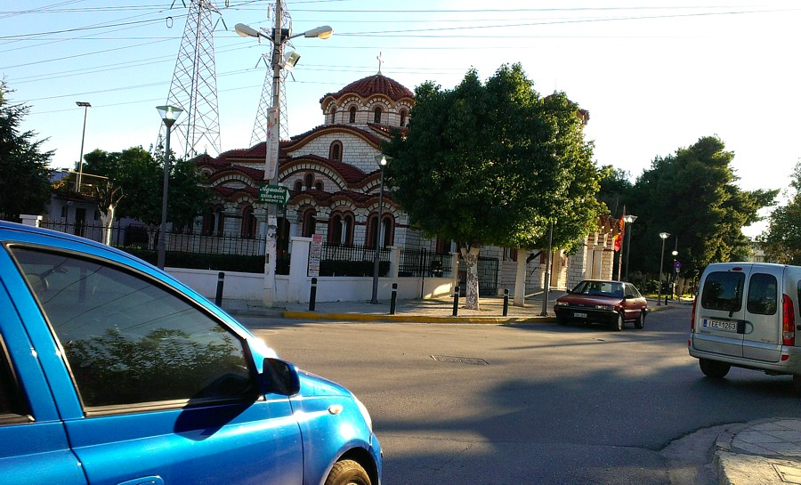 aigaleo